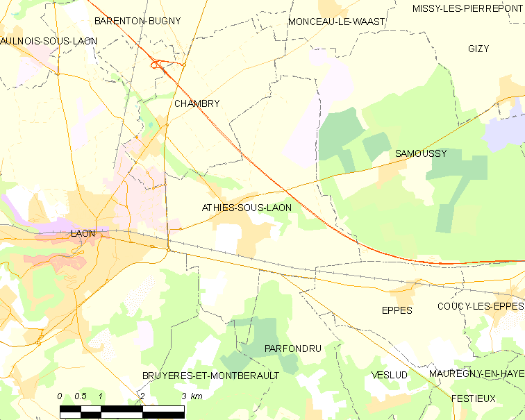 Map of French commune: Athies-sous-Laon Map commune FR insee code 02028.png